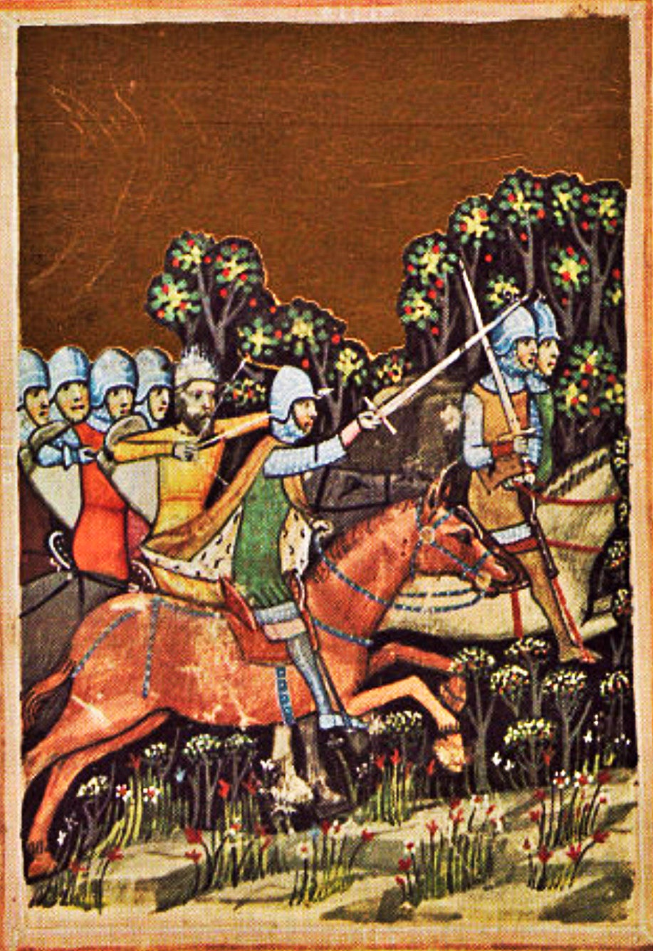 Samel Aba pursuing Peter Orseolo